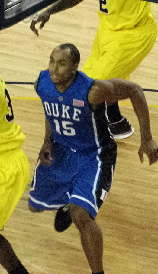 Gerald Henderson guarding DeShawn Sims.